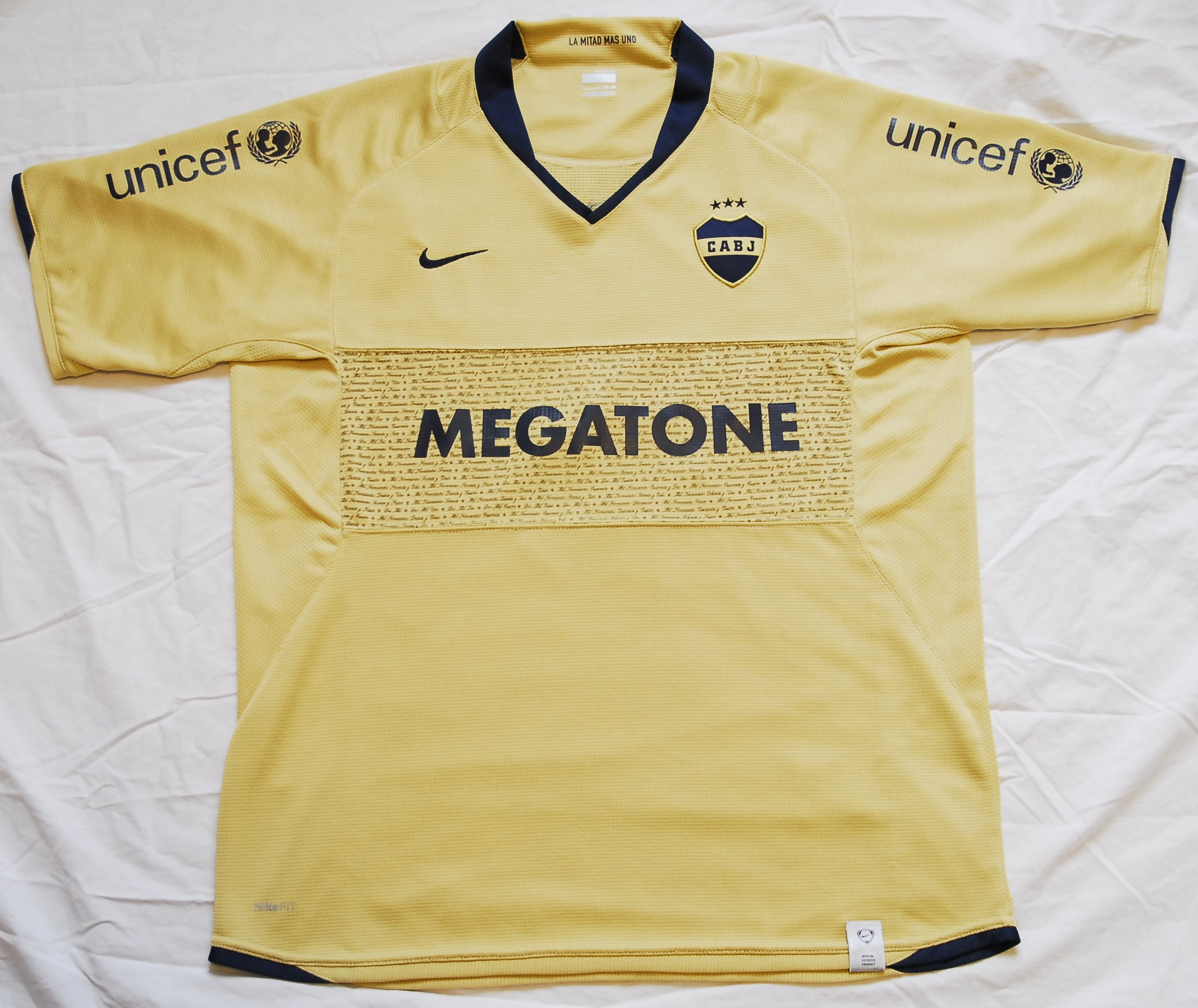 Boca Juniors 2007-2008 Alternate Jersey